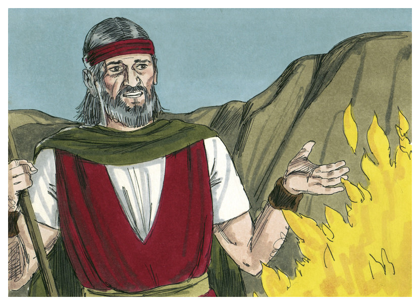 Biblical illustration of Book of Exodus Chapter 4